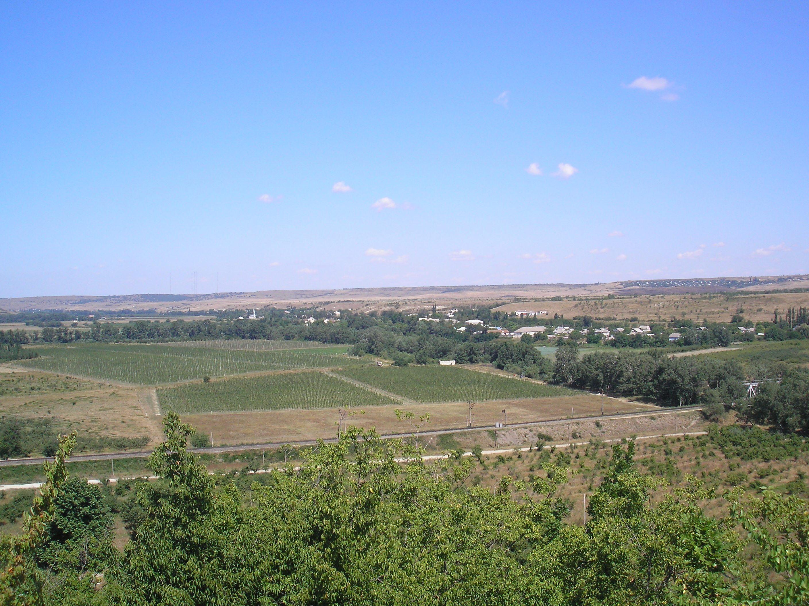 Village Pochtovoe, Bakhchisaray district, Crimea